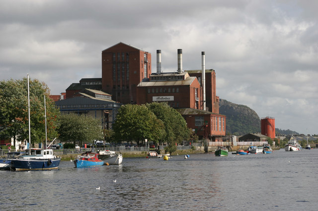 River Leven at Dumbarton River Leven at Dumbarton showing Ballentines Distillery before it was Demolished in 2006/7